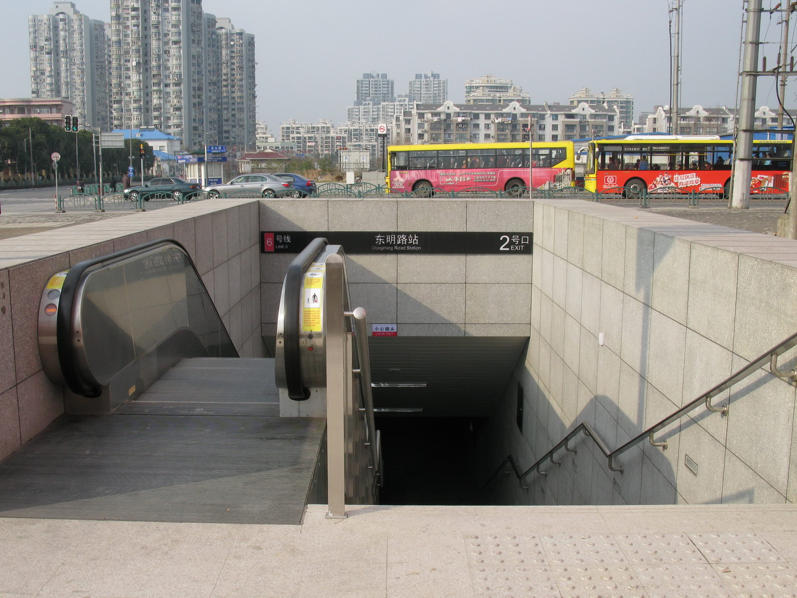 Exit No.2 of Dongming Road Station, Line 6